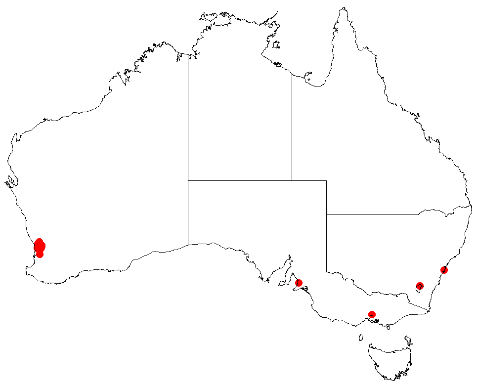 Hakea cristata Occurrence data downloaded from Australasian Virtual Herbarium on 22 November 2018 using